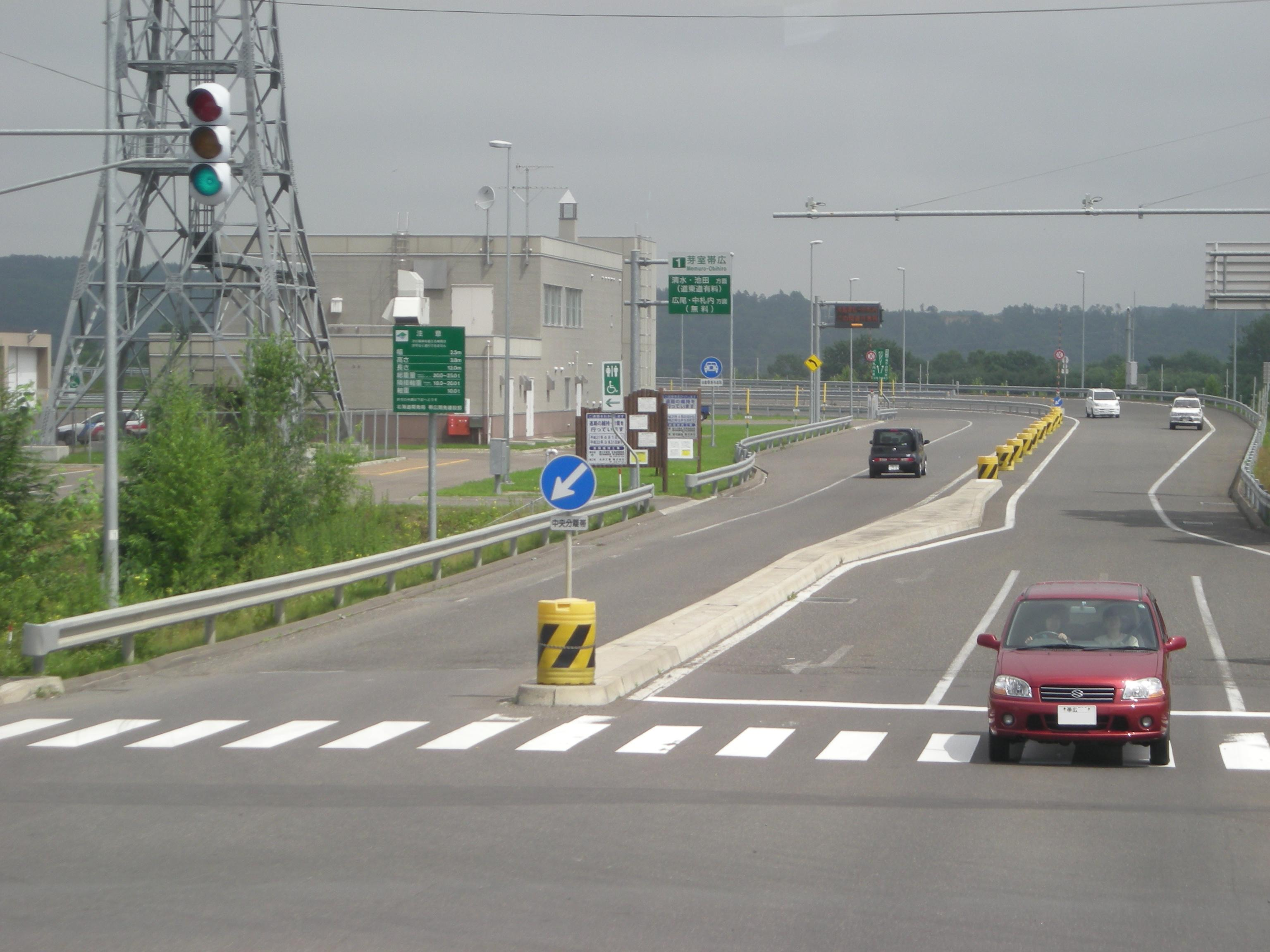 Memuro-Obihiro_IC,Hokkaido,Japan